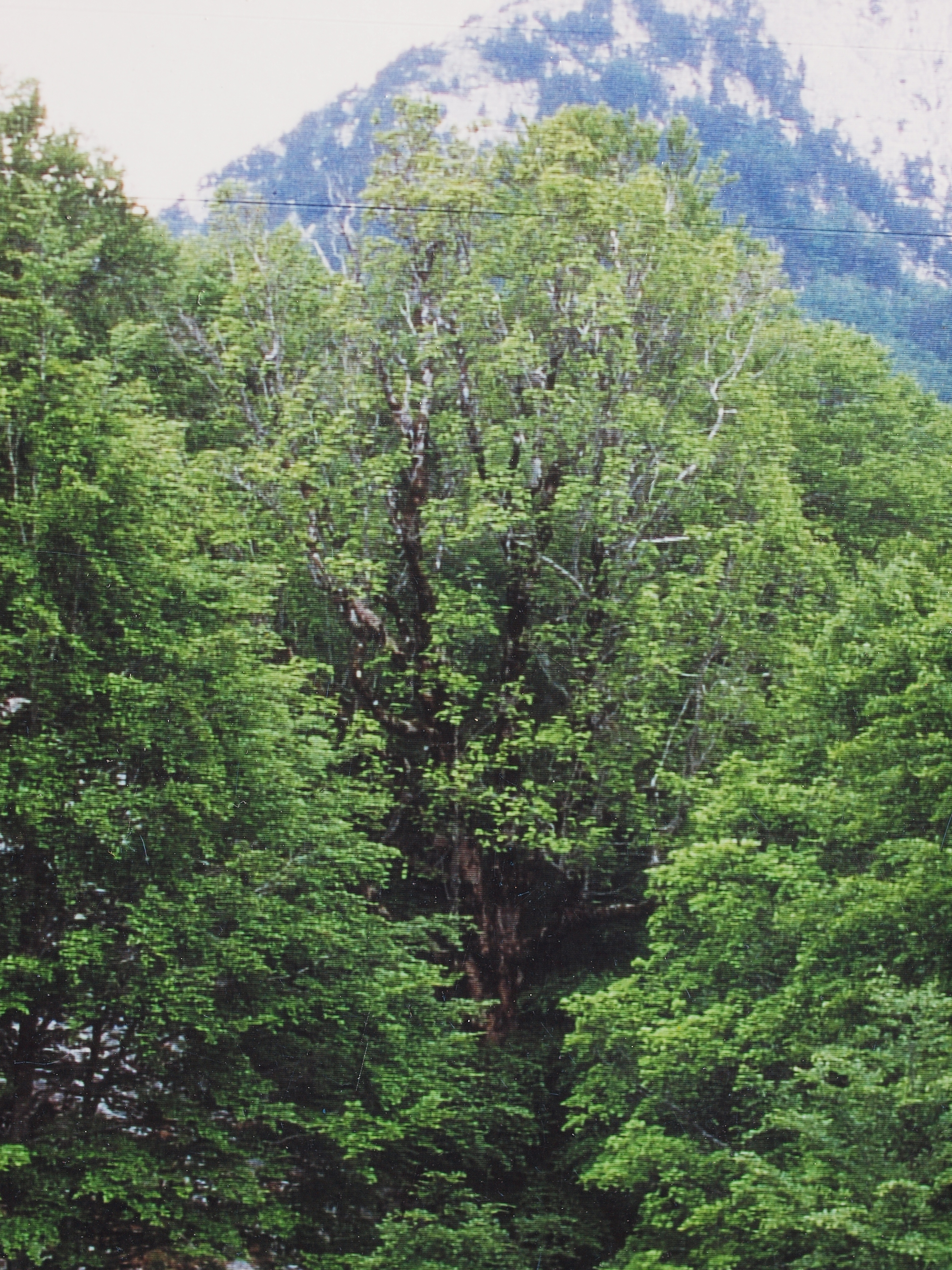 Old growth subalpine beech-greek maple forest. Strekanica between Velje leto and Medugorje at 1630 m. Acer heldreichii tops over Fagus sylvatica